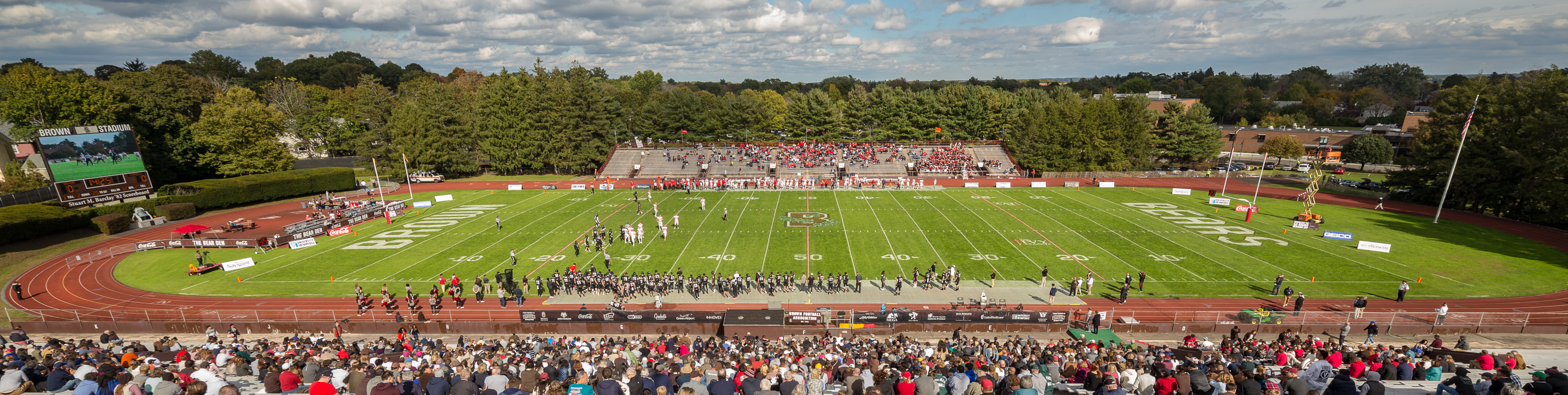 Brown Stadium wide view, view from the main grandstand toward the field and the visitors stands. Scoreboard at left. Cornell-Brown football game, Oct 20, 2018. Providence, Rhode Island.